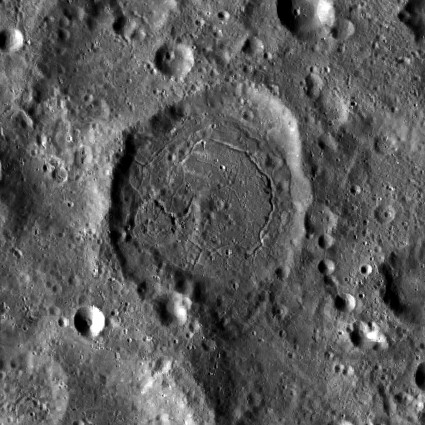 LROC . Floor-fractured Kostinskiy lies at the western border of the farside highlands; Guyot at bottom left corner of image.